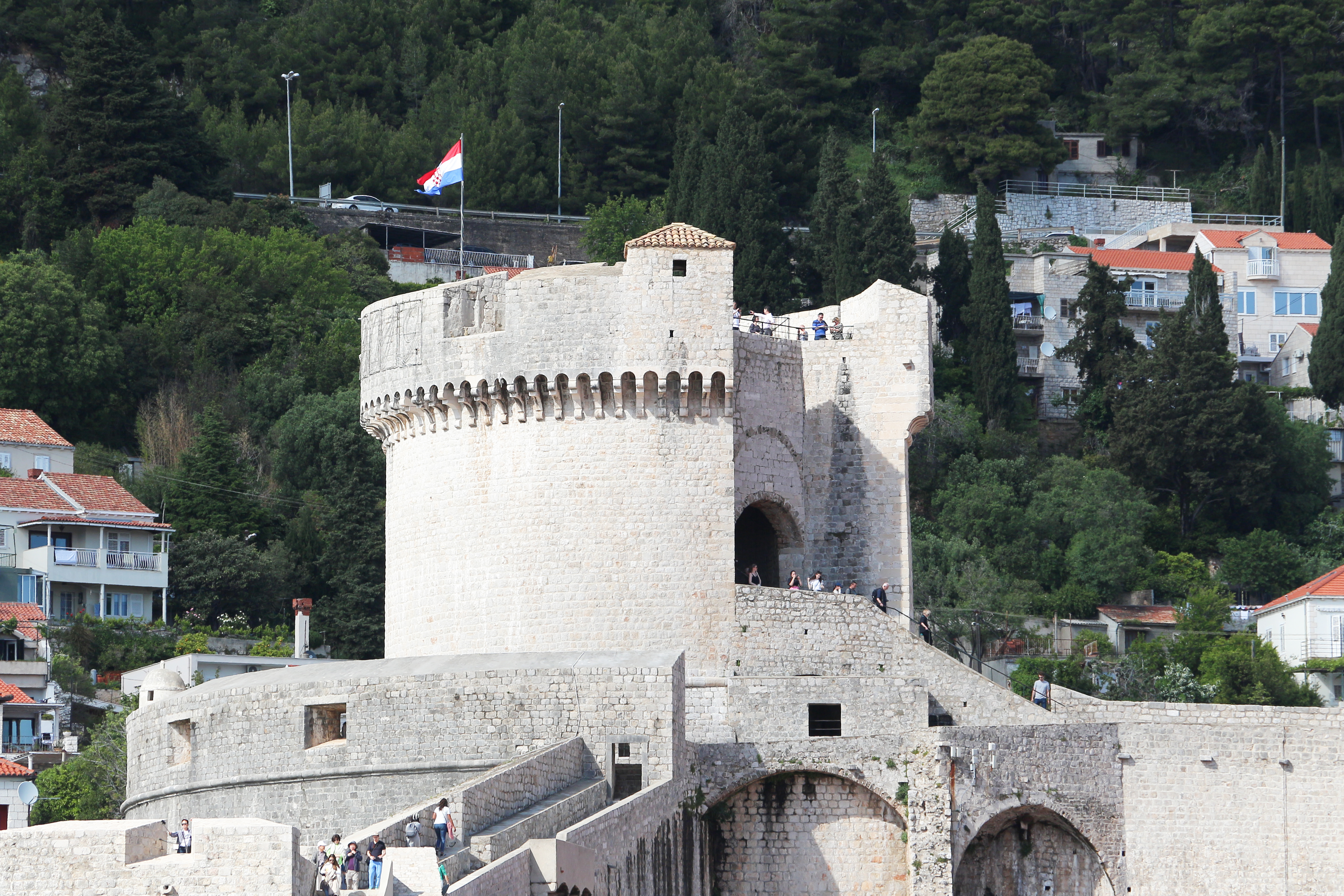 Minčeta Fortress, Dubrovnik, Croatia